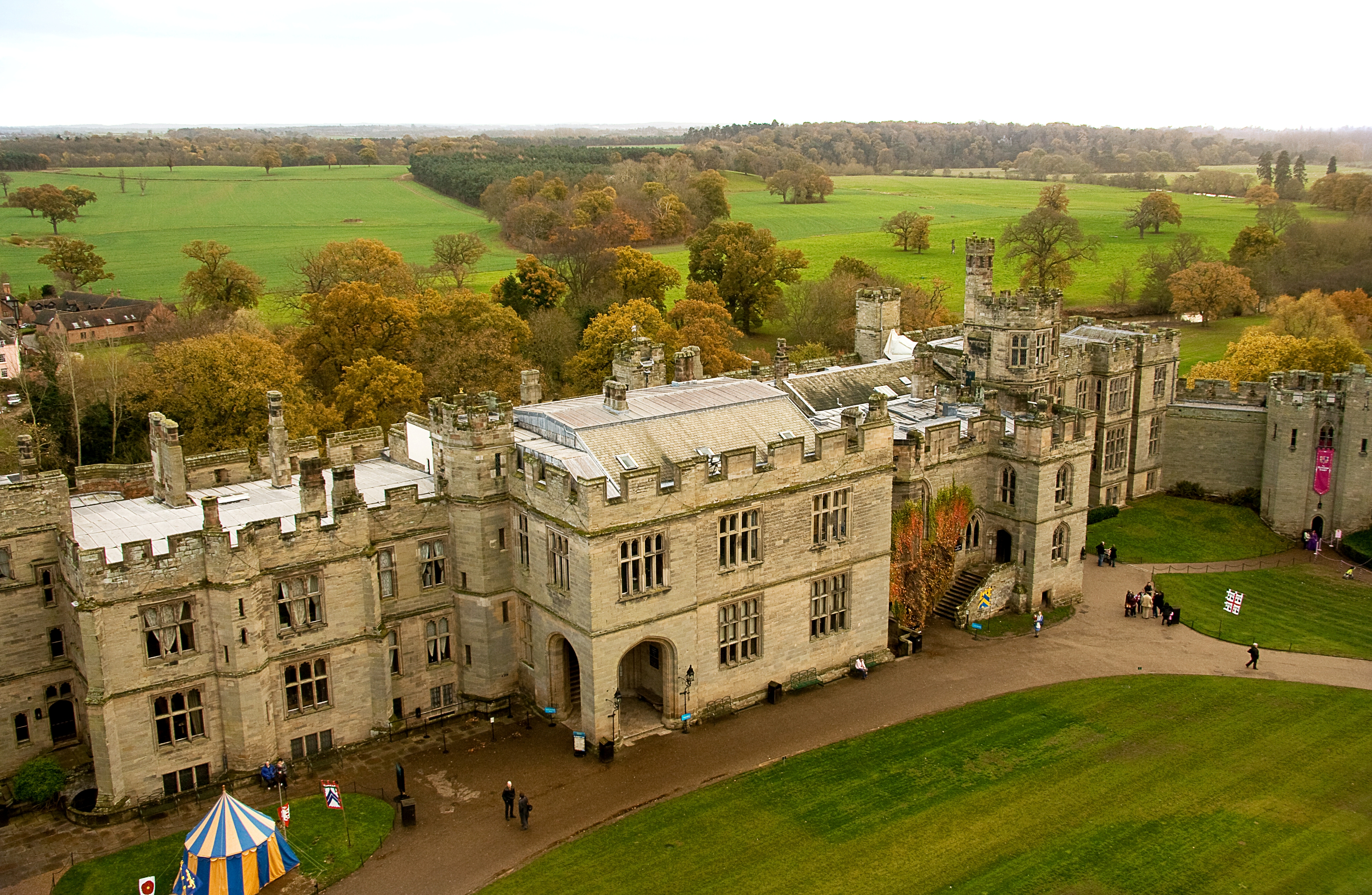 The main accomodation block at Warwick Castle as viewed from Guy's Tower.